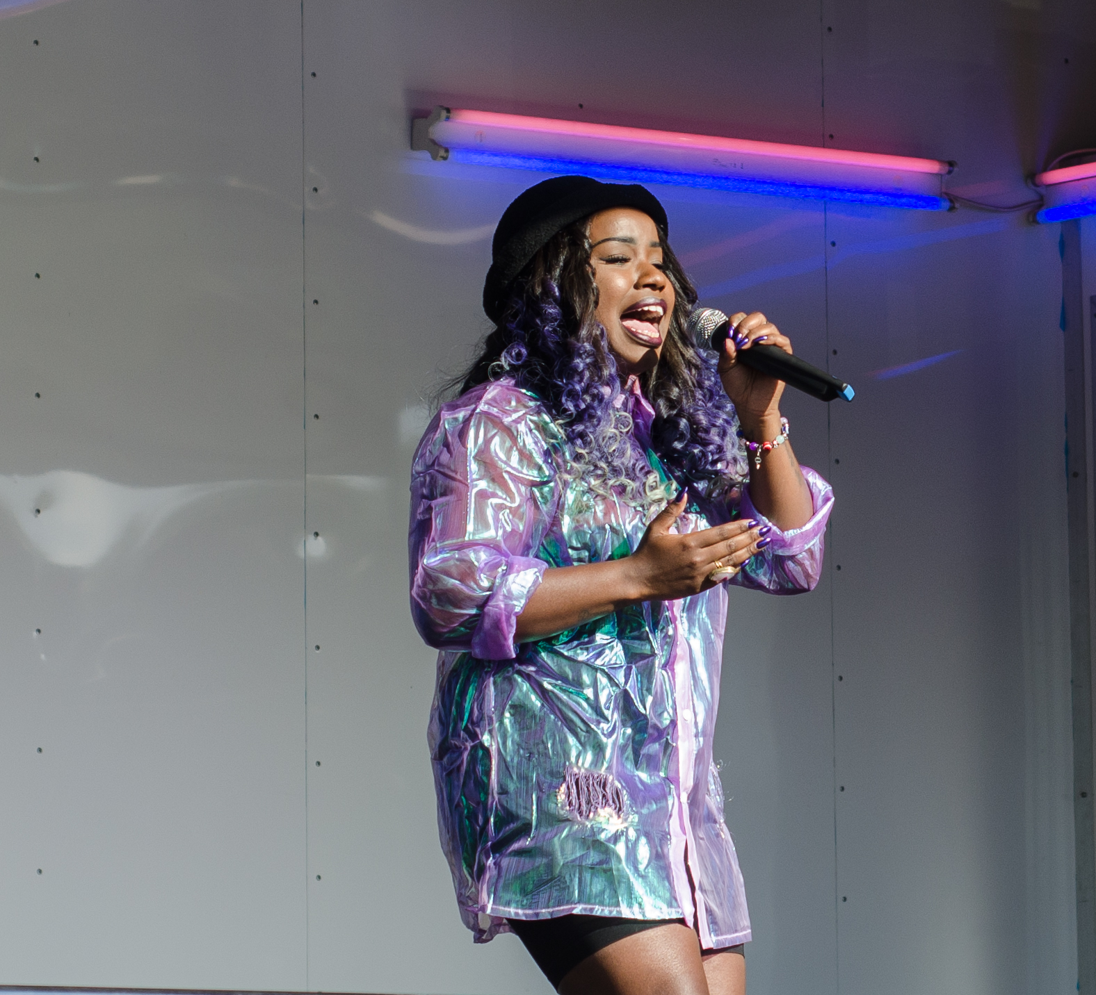 Misha B at the 2014 Scottish Afro-Caribbean Carnival